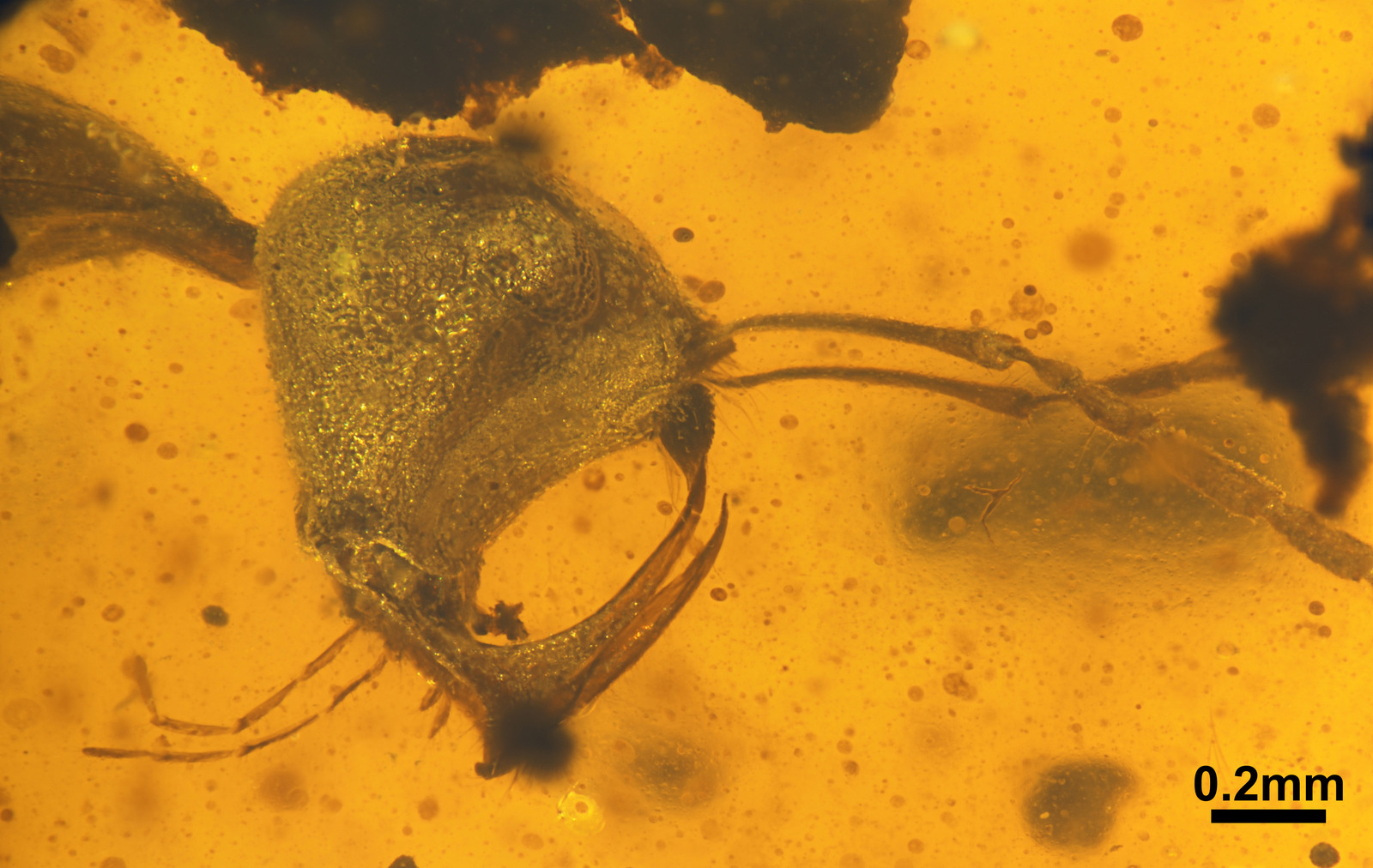 Profile view of a Haidomyrmex cerberus workers head. Burmese amber, Earliest Cenomanian; Noije Bum Village, near Myitkyina, Kachin State, Myanmar Beijing Normal University, Beijing, China. Specimen CNU-HYM-MA2019051 Ant web specimen FANTWEB00016